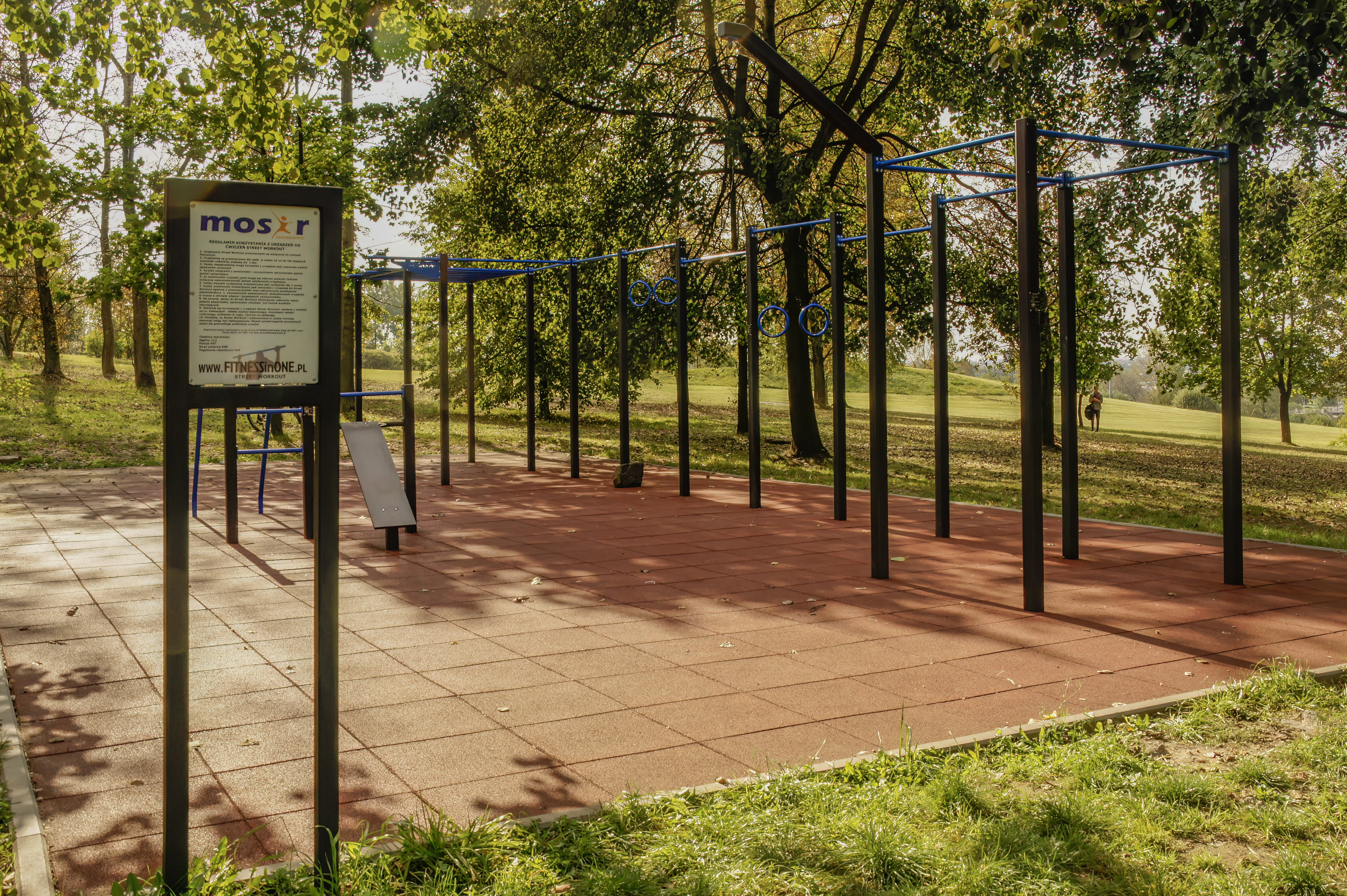 Workout park in Srodula Park